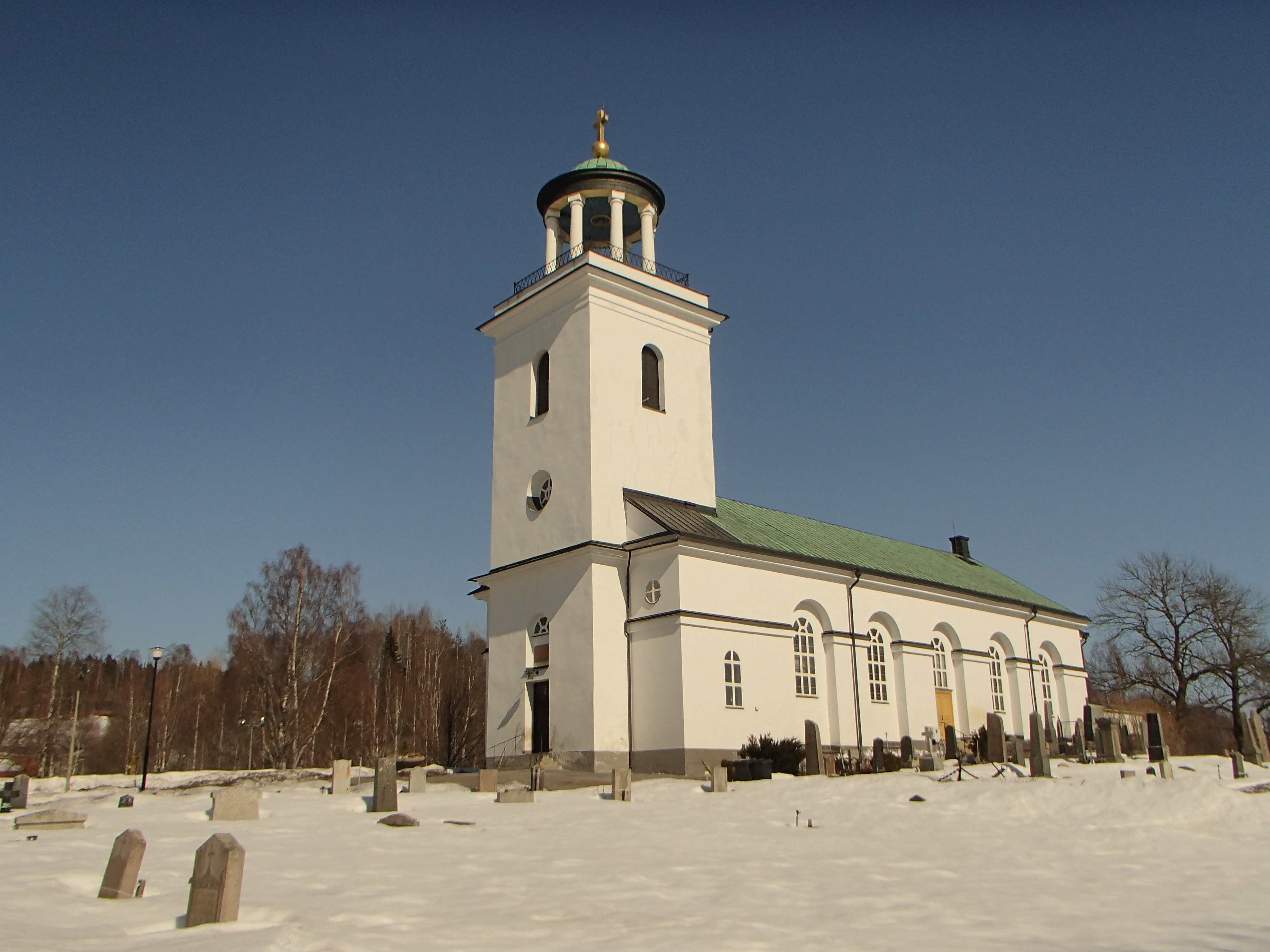 The church building of "Timrå kyrka" at Prästgatan 1 in Timrå